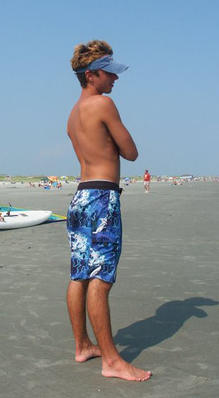 Boy Wearing Board Shorts at Sunset Beach, NC, with a sailboard in the background.